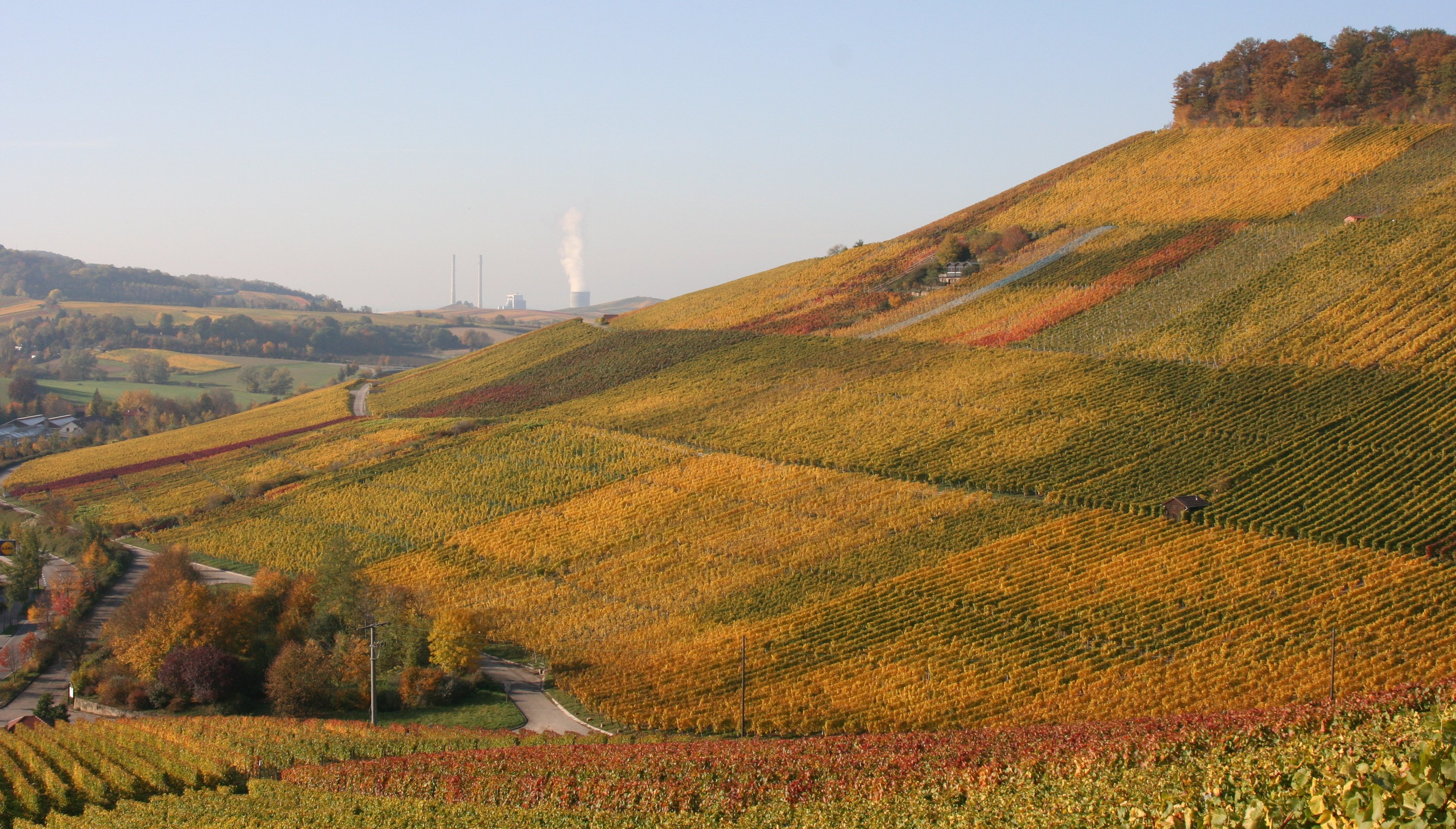 Autumnal vineyards in Weinsberg, Germany